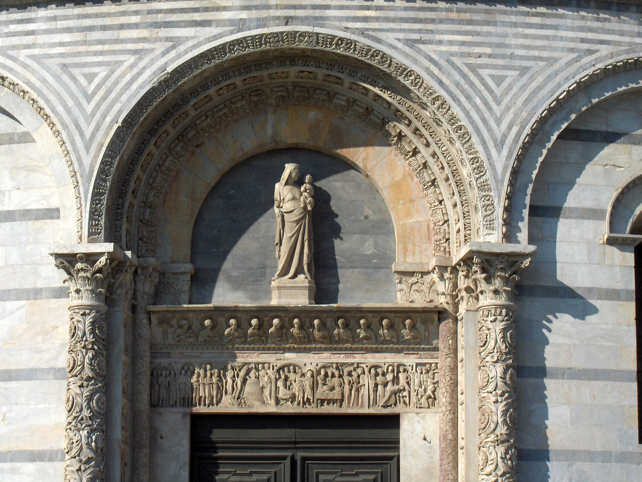 Pisa, Italy - Baptistry, entrance Own work - photo made by Georges Jansoone on 10 October 2005